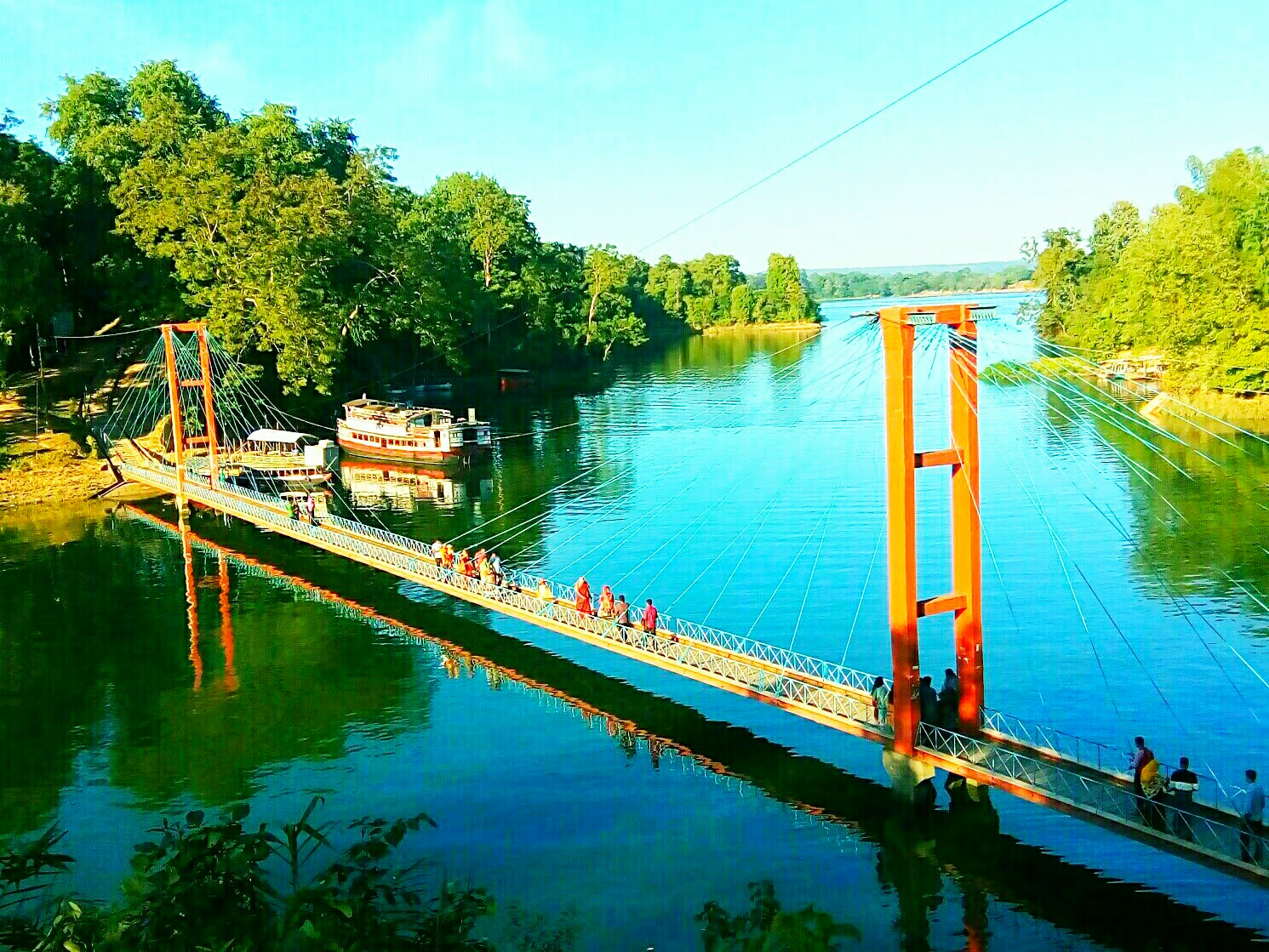 Hanging bridge of Rangamati, Bangladesh. It is also a tourist attractions.